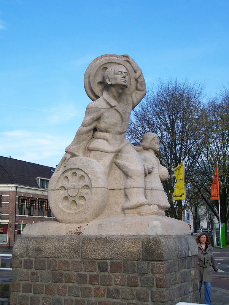 Sculpture "Het Verkeer" (Traffic) by Stef Uiterwaal. Created in 1939, placed at the Damstraat/Leidsekade in 1984.